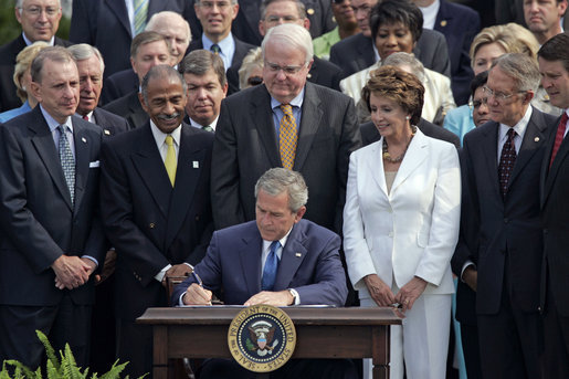 President George W. Bush signs H.R. 9, the Fannie Lou Hamer, Rosa Parks, and Coretta Scott King Voting Rights Act Reauthorization and Amendments Act of 2006, on the South Lawn Thursday, July 27, 2006. Among the people behind President Bush are Sen. Arlen Specter, Rep. John Conyers, Rep. Jim Sensenbrenner, Rep. Nancy Pelosi, Sen. Harry Reid, Sen. Bill Frist, Attorney General Alberto Gonzales, Sen. Hillary Clinton, Rep. Roy Blunt, Rep. Steny Hoyer, Sen. Lindsey Graham, Sen. Bob Menendez, Sen. Ken Salazar, and others.